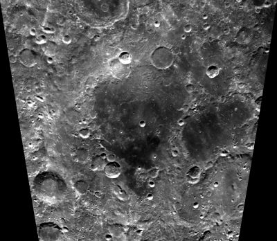 Poincaré lunar crater - Clementine image